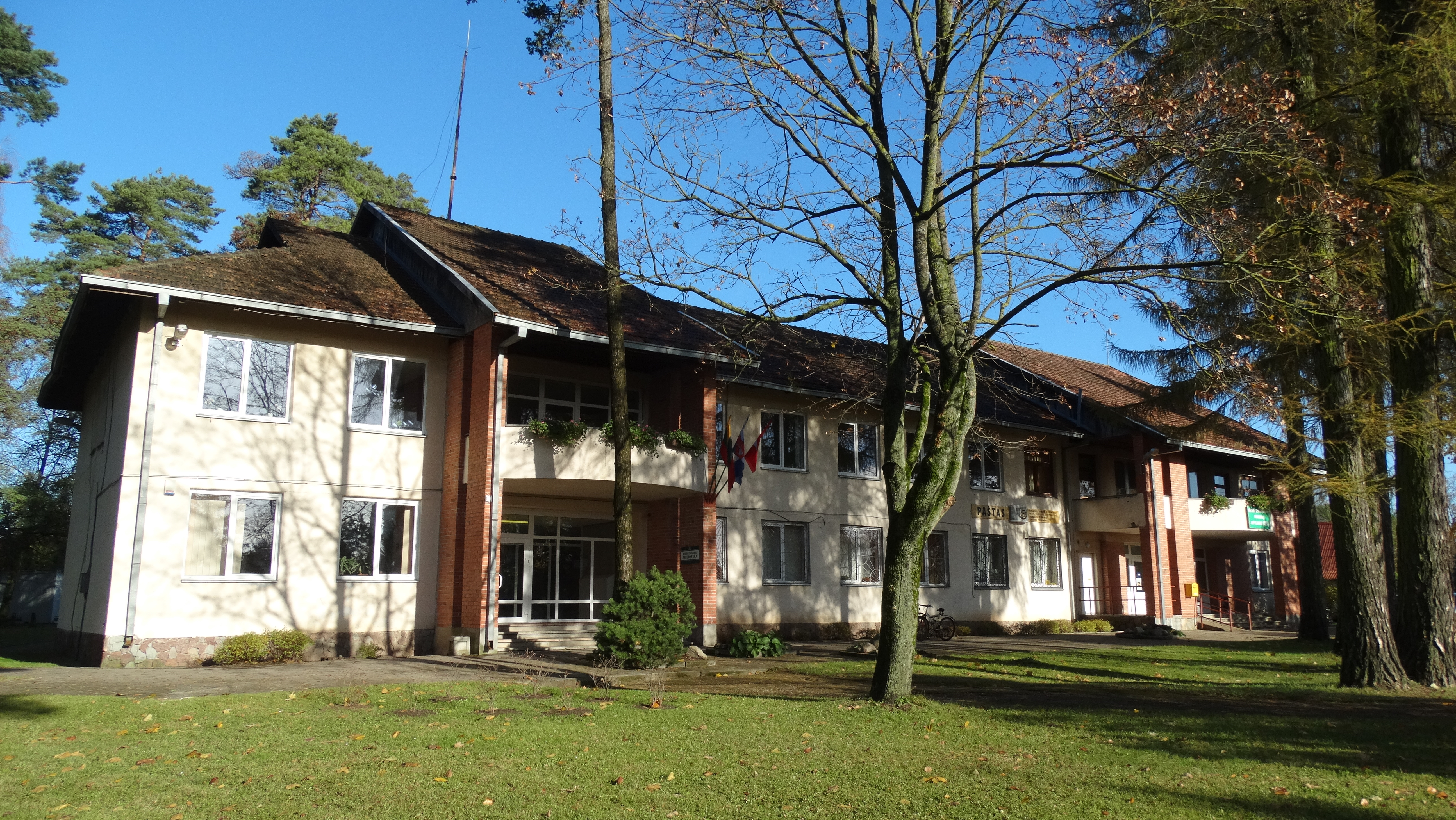 Eldership, Raudondvaris, Lithuania